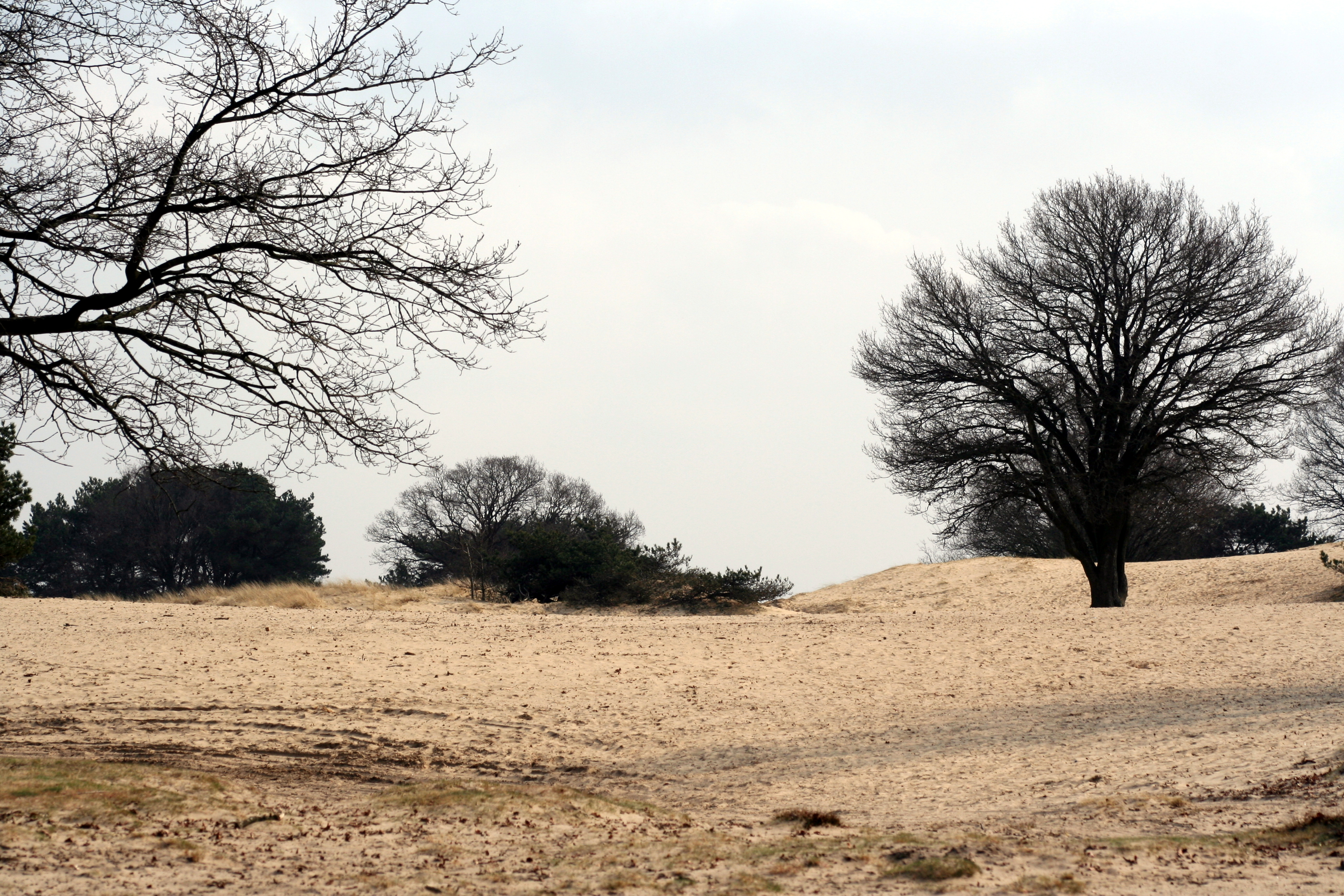 Akeingerzand , Drents- Friese woud